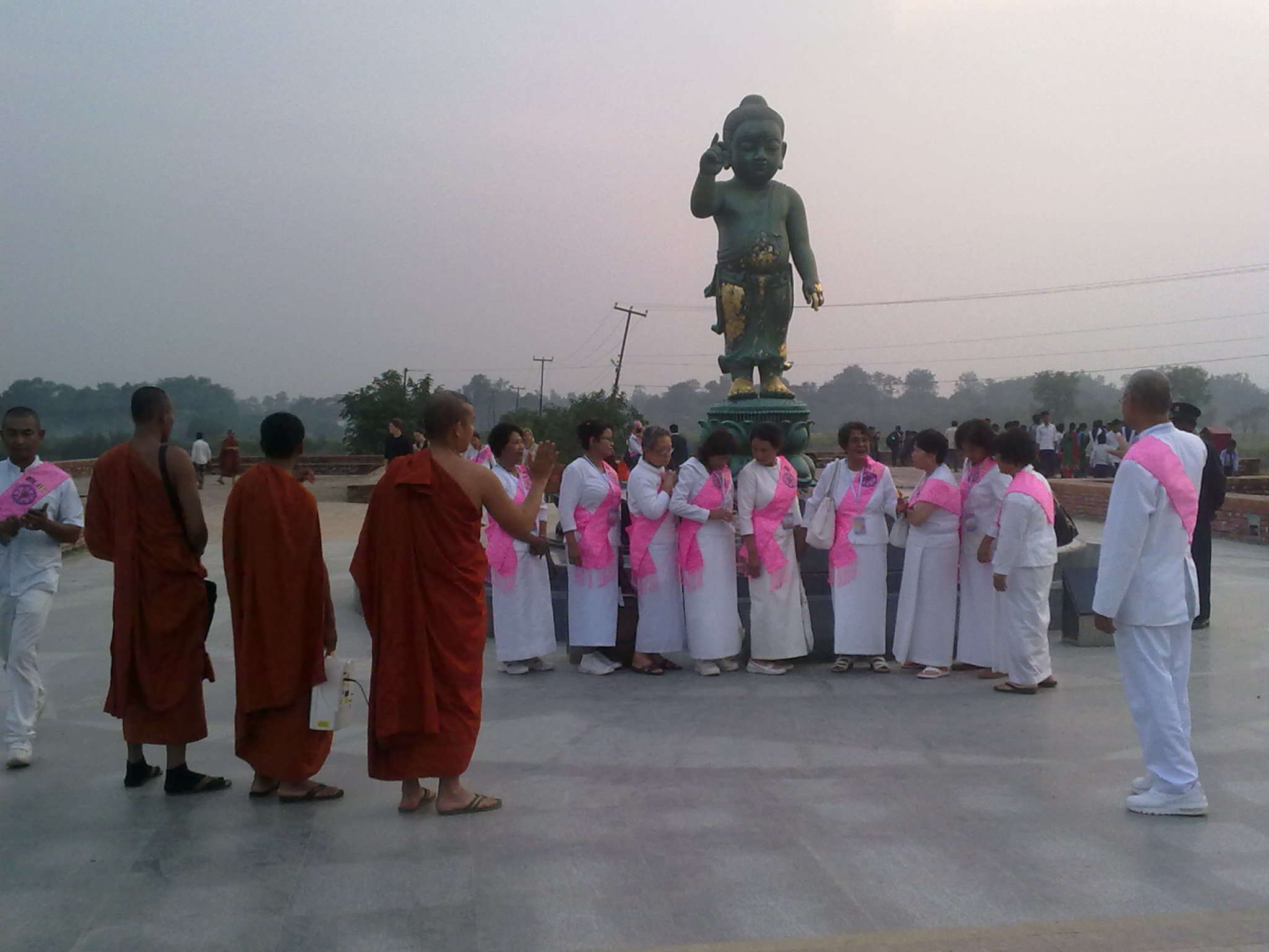 Lumbinī (Nepali and Sanskrit: लुम्बिनी About this sound Listen (help·info), "the lovely") is a Buddhist pilgrimage site in the Rupandehi District of Nepal. It is the place where, according to Buddhist tradition, Queen Mayadevi gave birth to Siddhartha Gautama in 623 BCE.[1][2] Gautama, who achieved Enlightenment some time around 588 BCE,[3][4] became the Gautama Buddha and founded Buddhism.[5][6][7] Lumbini is one of many magnets for pilgrimage that sprang up in places pivotal to the life of Gautama Buddha; other notable pilgrimage sites include Kushinagar, Bodh Gaya and Sarnath.